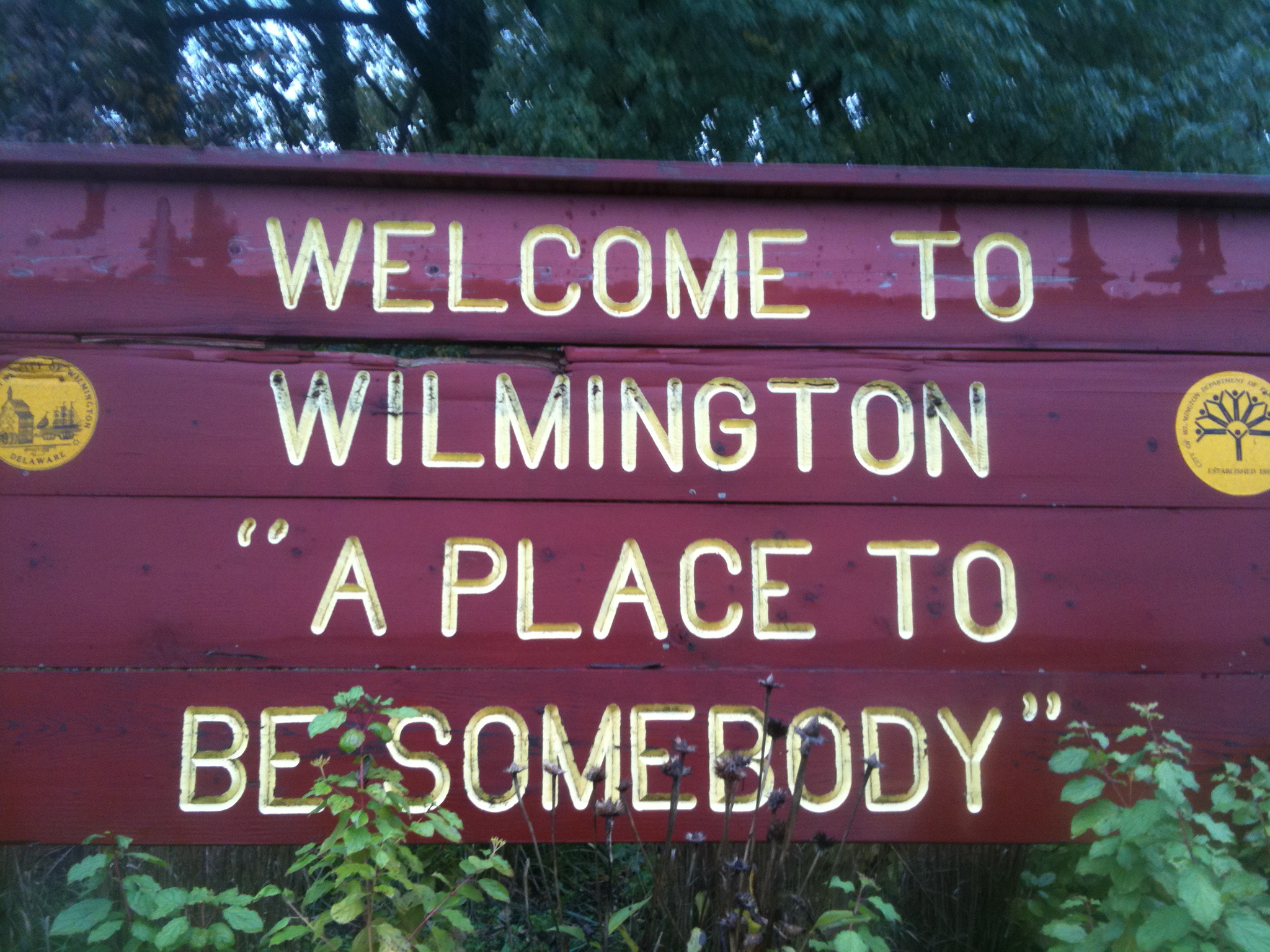 "Welcome to Wilmington 'A Place to be Somebody'" These signs are on major thoroughfares in Wilmington, Delaware, USA. This photograph was taken at the corner of Concord Avenue and North Broom Street.